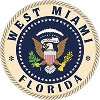 Seal of West Miami, Florida